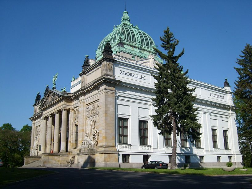 Miejski Dom Kultury w Zgorzelcu (south-west view)